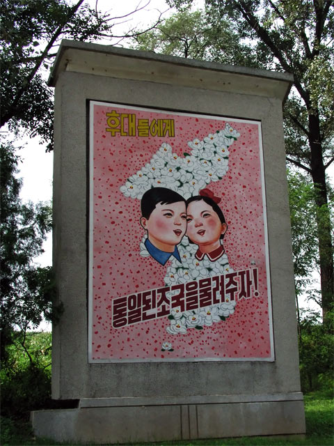 Reunification memorial at the inner side of North Korean DMZ (Demilitarized Zone) entrance gate stating: "Let us pass on the united country to the next generation!" Own photo taken in summer 2005.